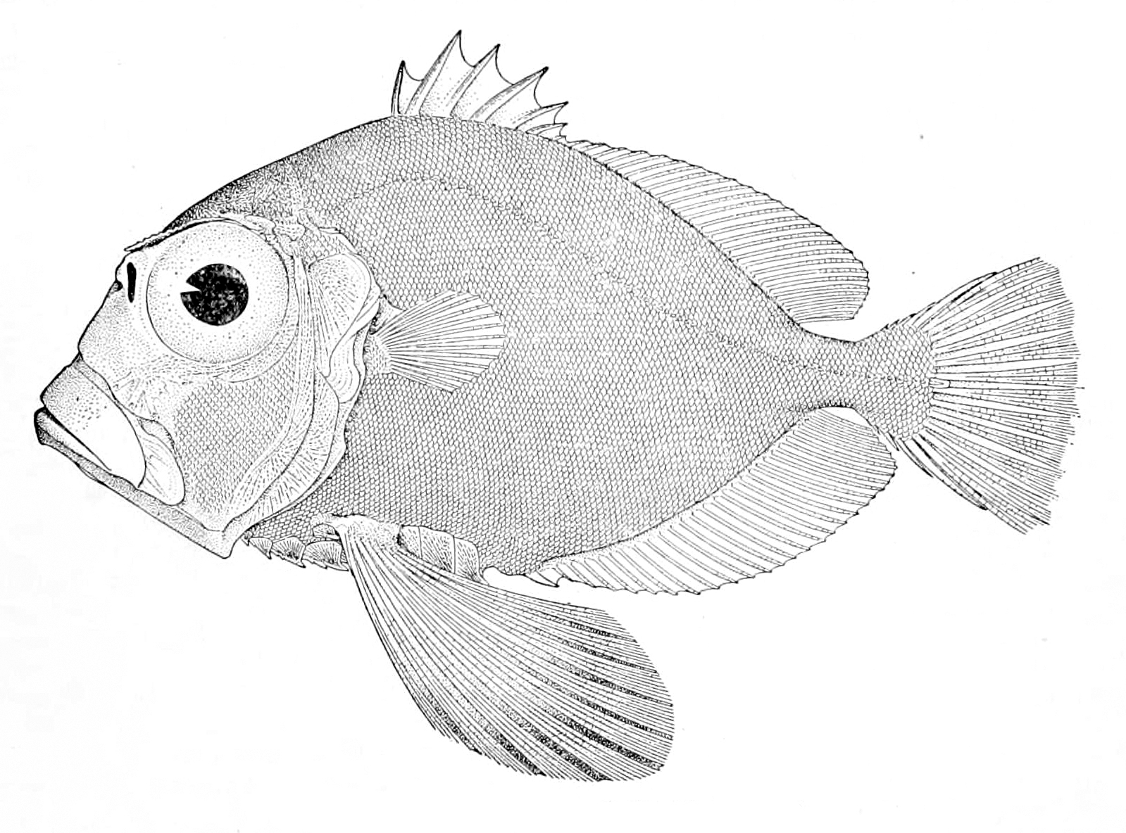 Stethopristes eos